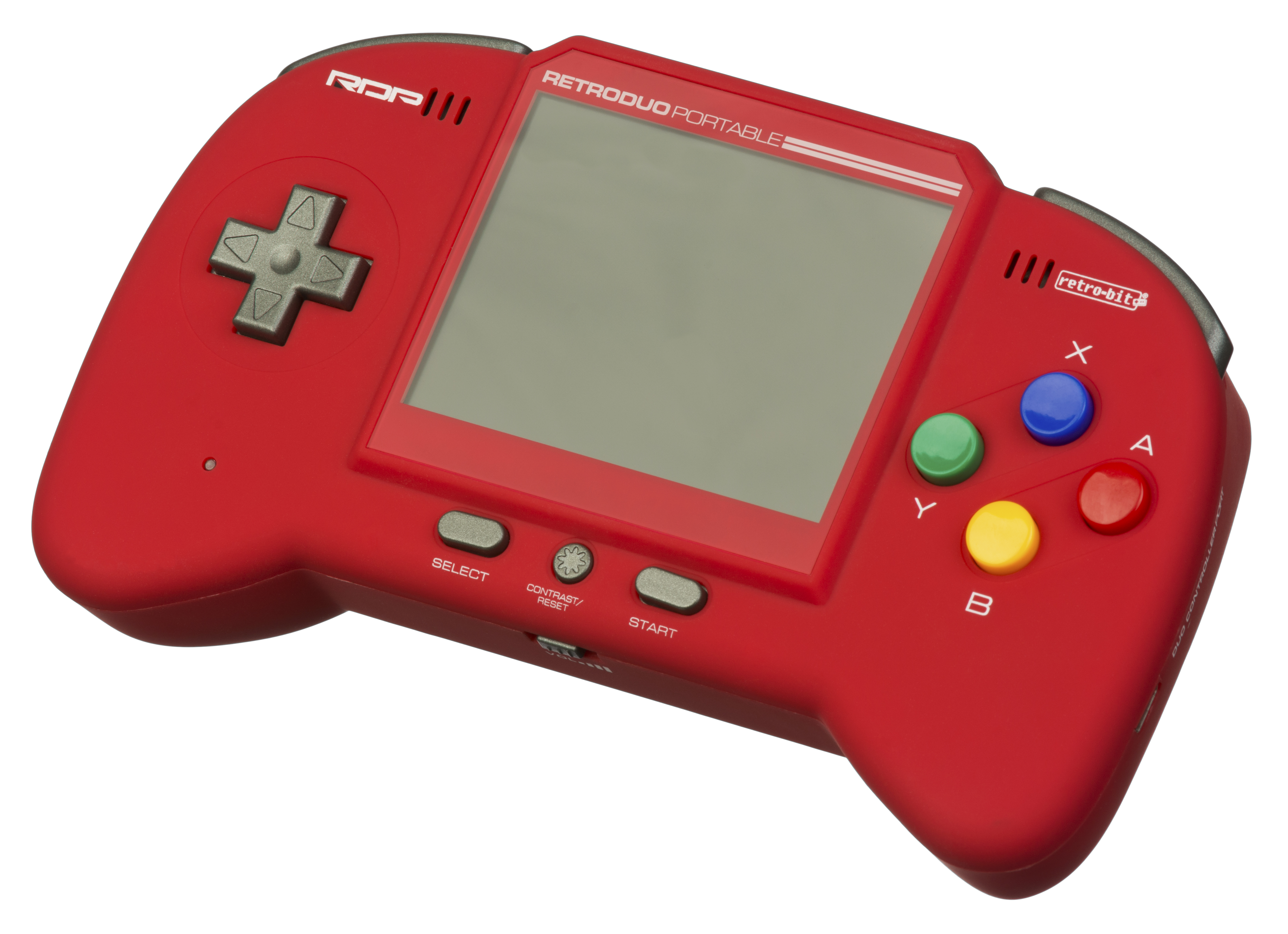 The Retro Duo Portable, a handheld clone system made by Retro-Bit and sold in the US. The Retro Duo Portable is capable of playing Super Nintendo cartridges via a large slot in the back; you can play NES or Sega Genesis game by using a cartridge adapter.